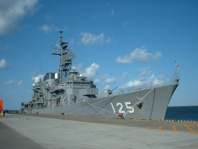 JMSDF DD-125 SAWAYUKI under anchorage to the Wakkanai harbor Tenpoku no.1 wharf.